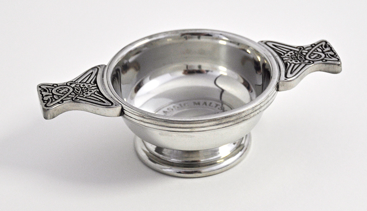 Traditional Scottish cup for whisky